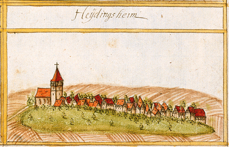 View of Heutingsheim, Freiberg am Neckar, from the forest register books created by Andreas Kieser